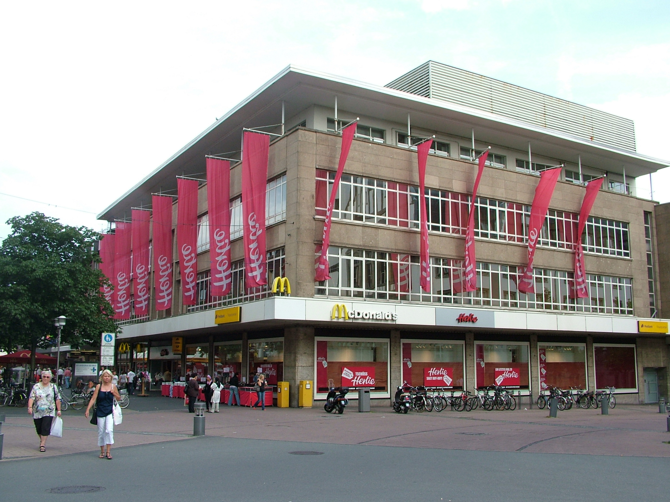 Hertie (former Karstadt) in Gladbeck, due to be closed ("Goodbye Hertie").